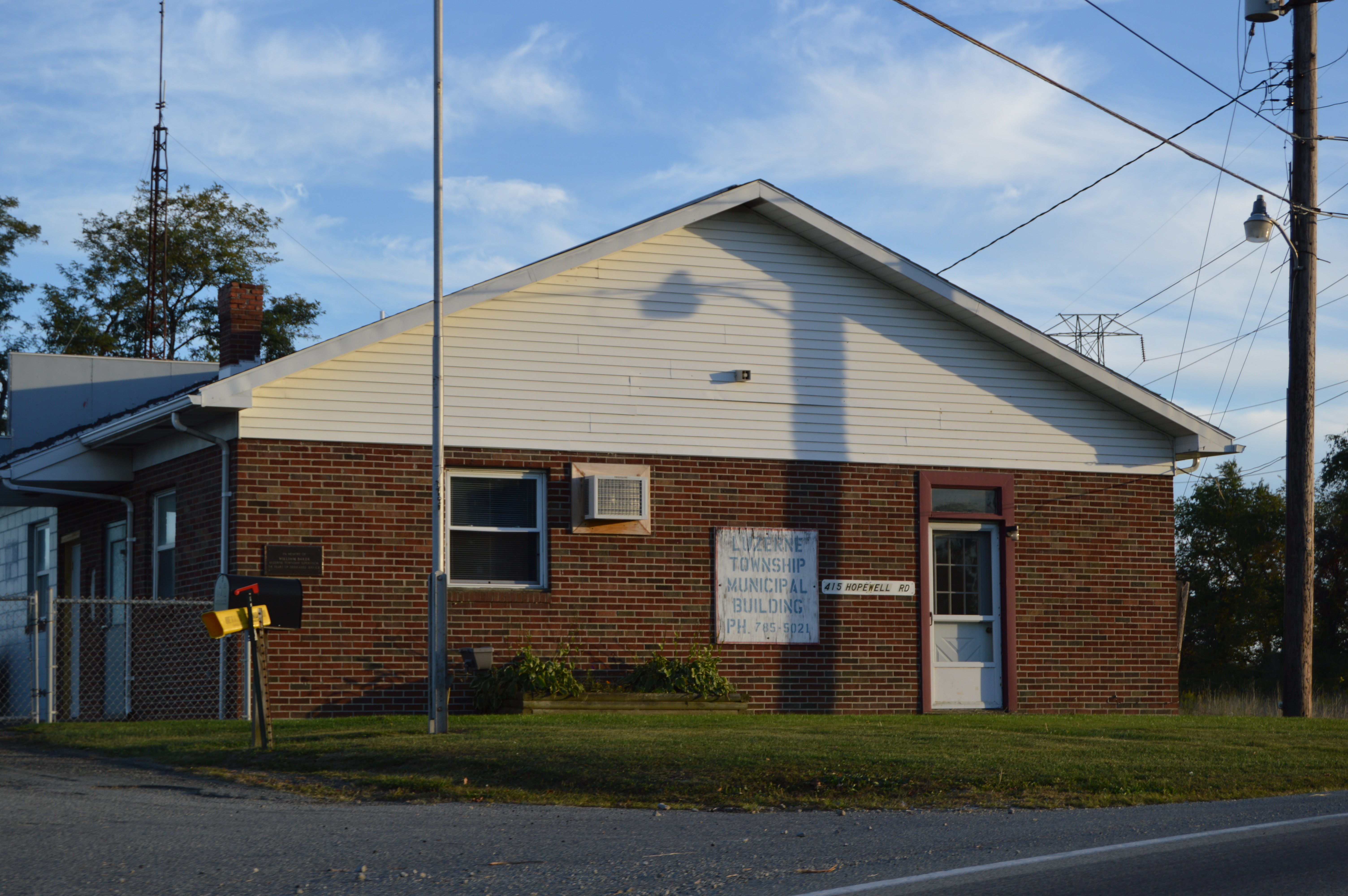 Front of the municipal office building (the town hall) for Luzerne Township, Fayette County, Pennsylvania, United States, located at 415 Hopewell Road west of Republic.